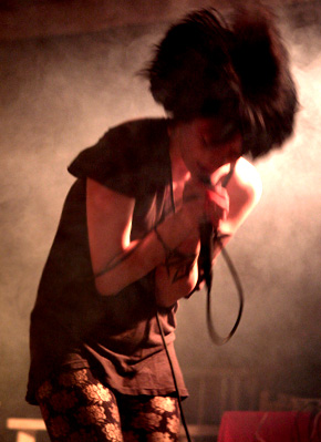 Tying Tiffany, italian musician. Live at Deposito Giordani, Pordenone, Italy.